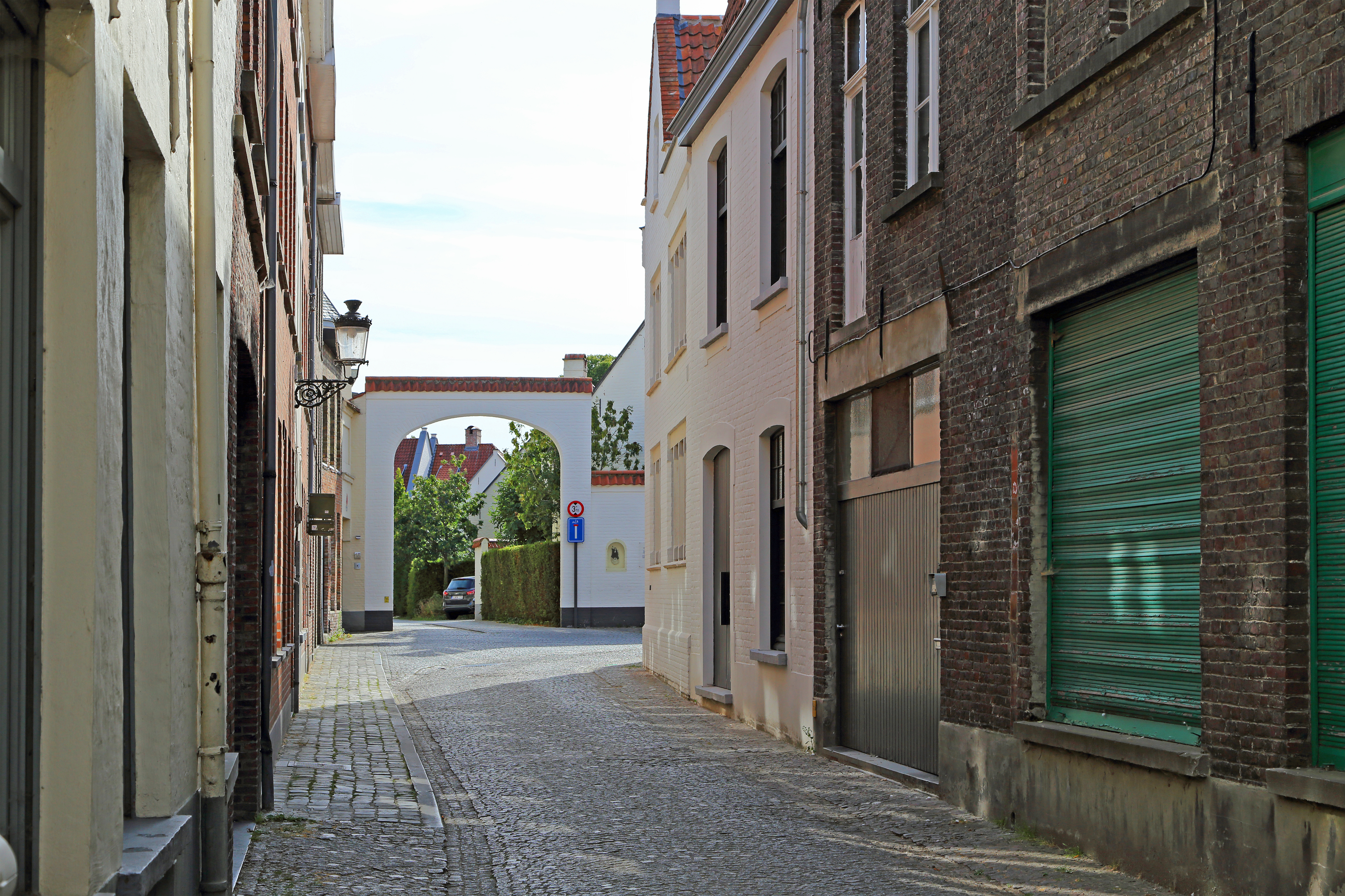 Bruges (Belgium): Colettijnenstraat